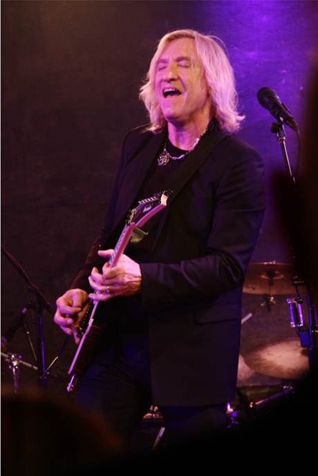 Joe Walsh performs live at the Troubadour in Los Angeles, CA